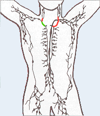 The lymphatic system, lymph vessels and lymph nodes.